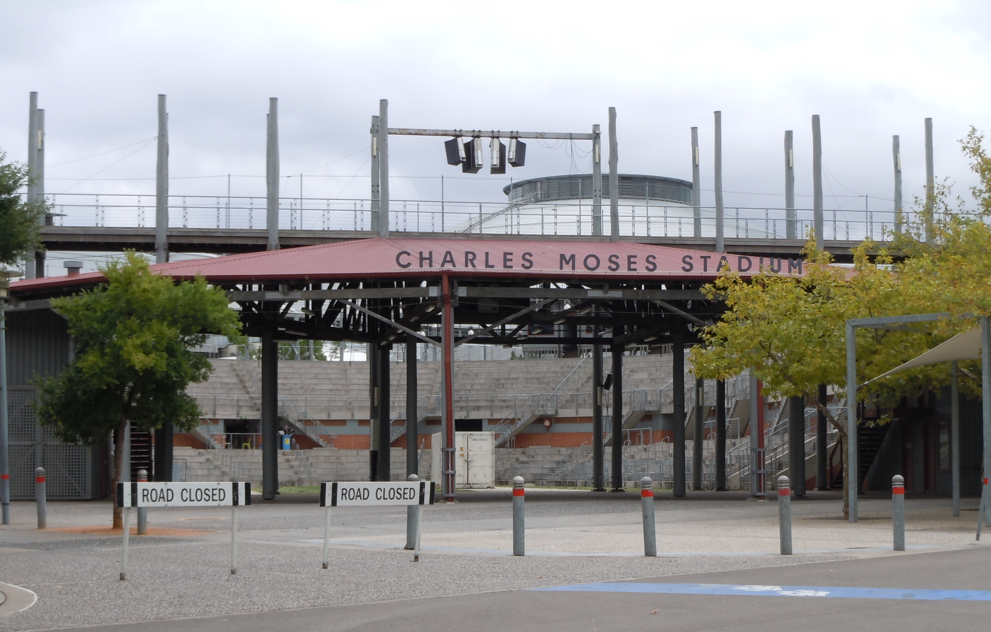 View of Charles Moses Stadium from the Grand Parade.